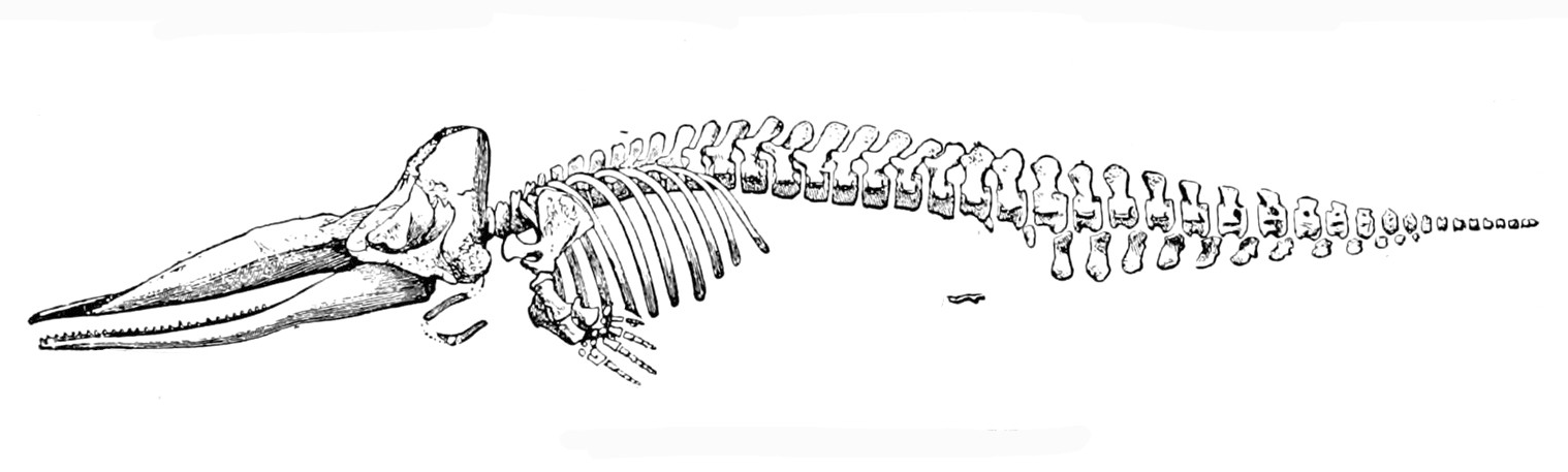 Skeleton of a Sperm Whale